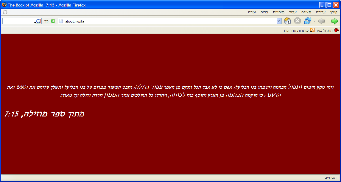 The Book of Mozilla in Mozilla Firefox 1.5.0.12 in Hebrew